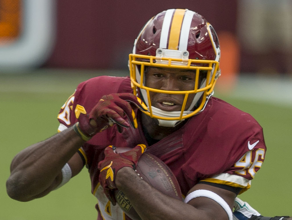 Washington Redskins running back, Alfred Morris, in a game against the Miami Dolphins on September 13, 2015.